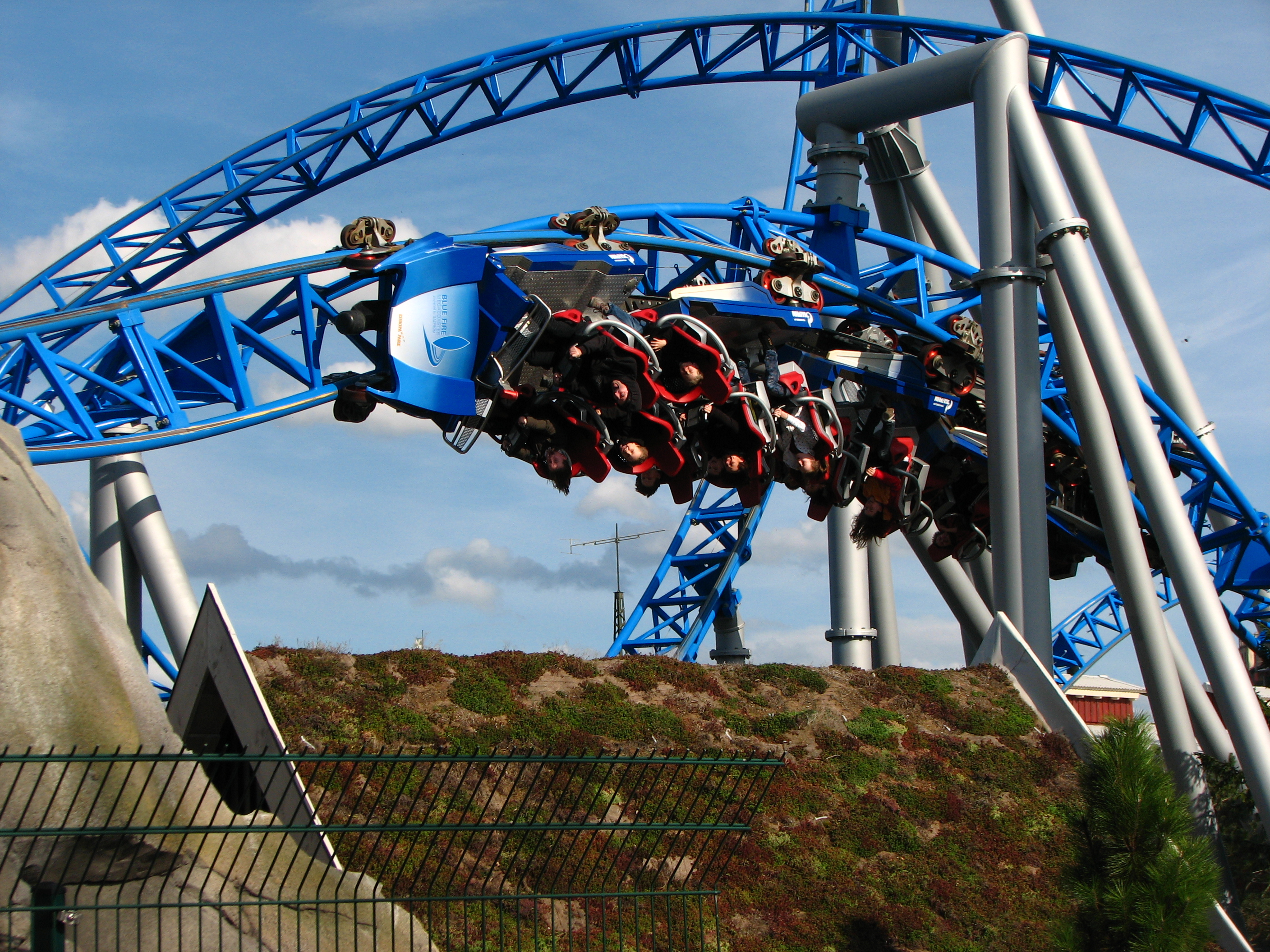 Blue Fire Megacoaster, Europa-Park, Rust, Baden-Württemberg, Germany.